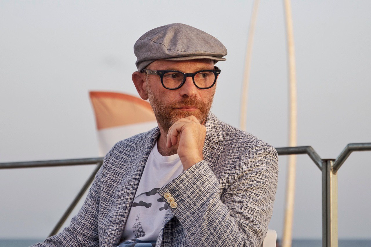 Sergio Nazzaro, Journalist